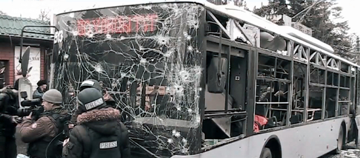 At the place of shelling in Donetsk neighborhood Bosse, 22 January 2015. A trolley bus was hit; eight people died; thirteen were hospitalized. By the evening, the causality toll went up to 15 civilians dead and 20 wounded. The Donetsk People's Republic stated a Ukrainian 82mm mortar shell was responsible for the attack. Members of the OSCE SMM mission concluded that the crater suggested "a mortar or an artillery piece" being fired from a "north-western direction".